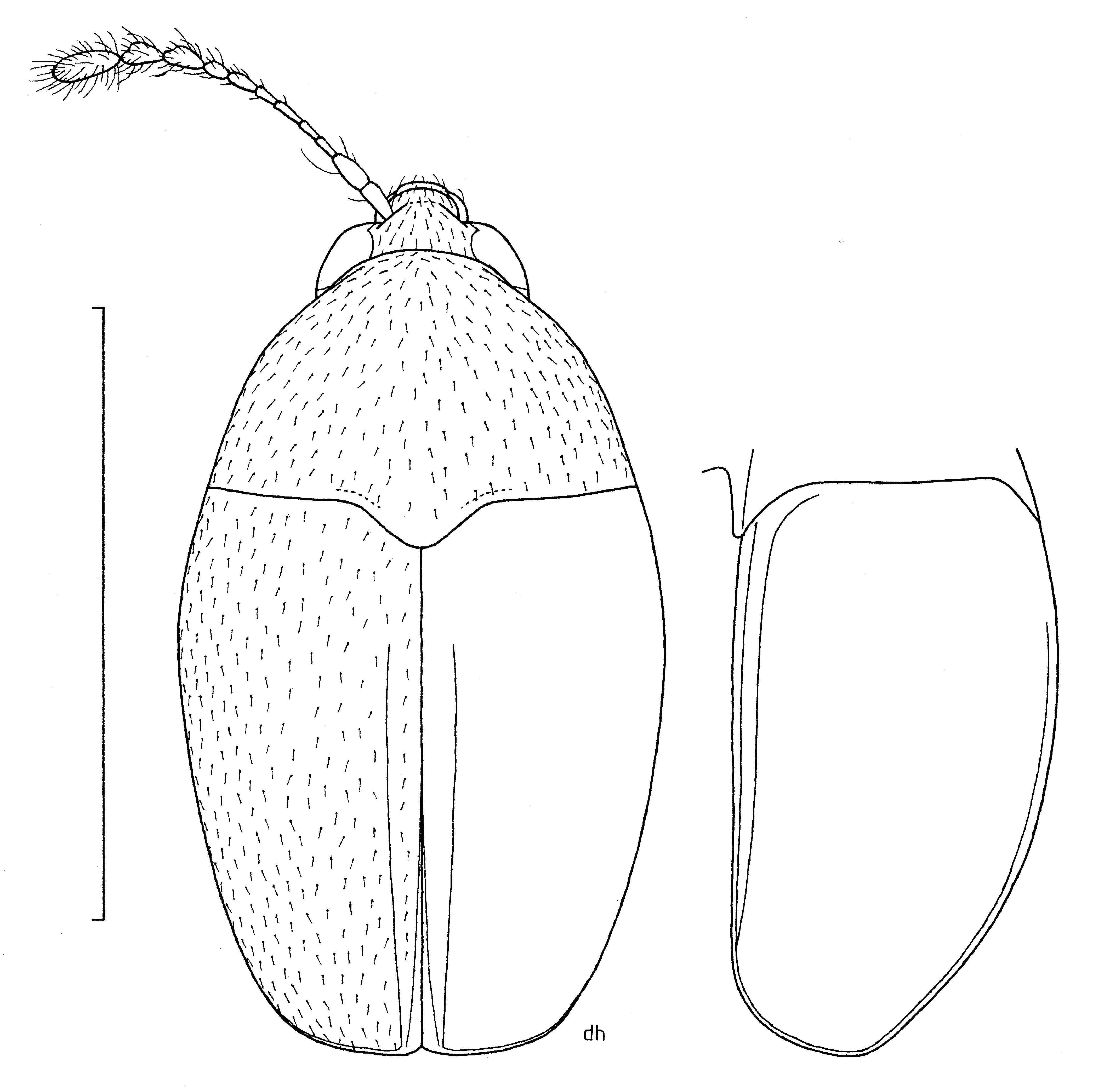 (Coleoptera: Staphylinidae) Baeocera actuosa illustrated by Des Helmore.